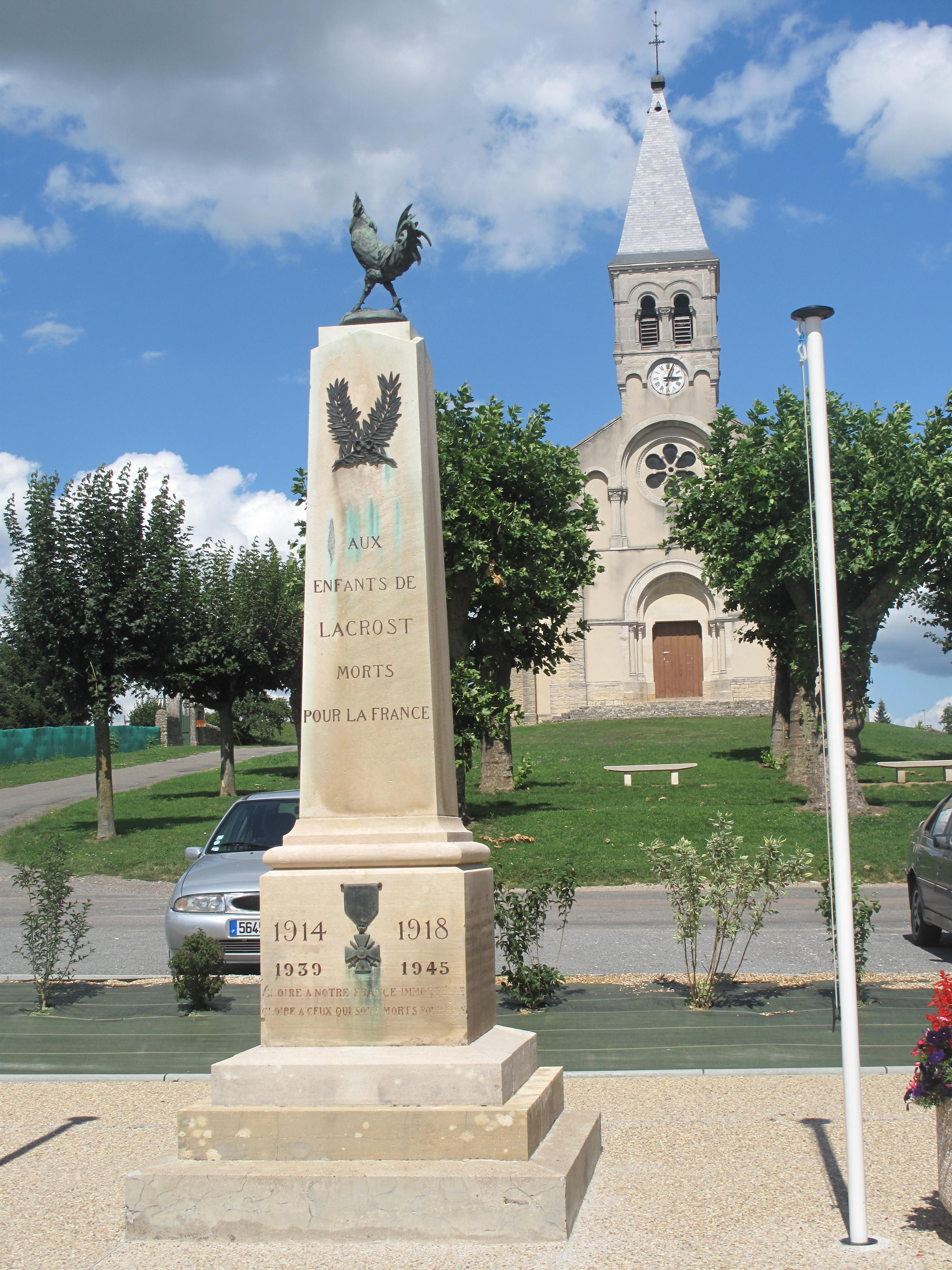 The memorial and the church of Lacrost, Saône-et-Loire, France